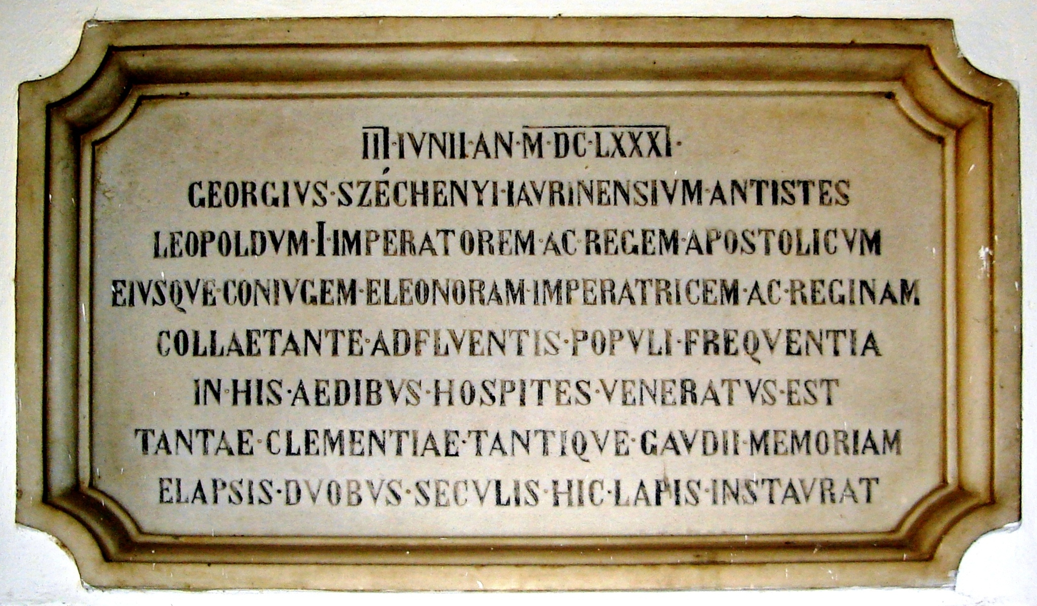 Commemorative plaque of the Leopold I, Holy Roman Emperor’s staying in 1681 in the episcopal palace in Fertőrákos.